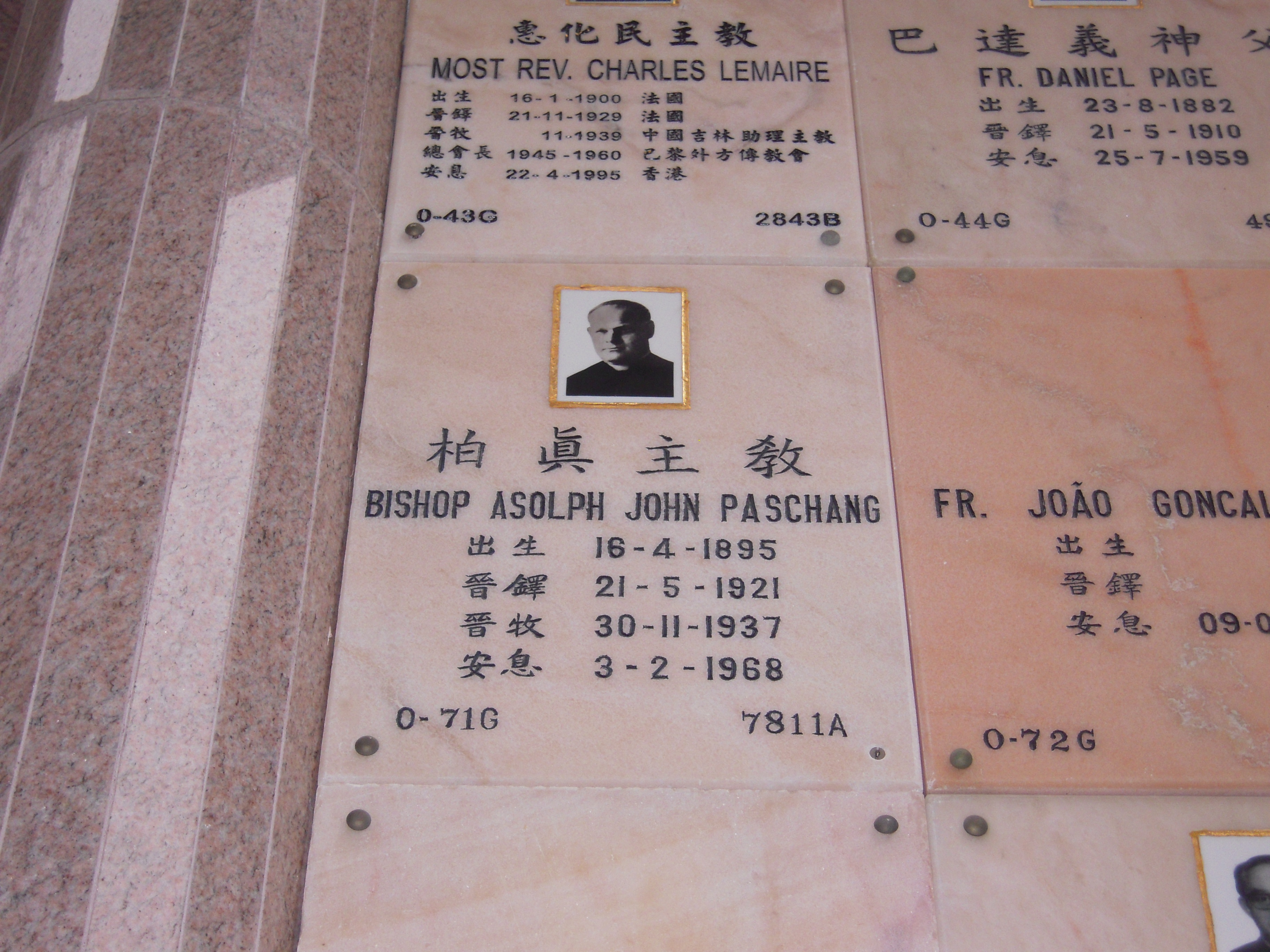 Current resting place of Bishop Adolph Paschang